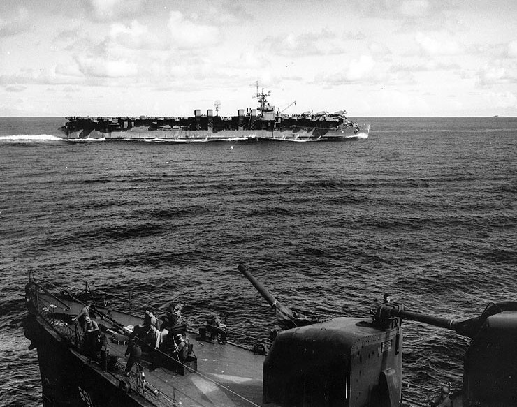 USS Monterey (CVL-26) maneuvers to recover planes during operations in the Bismarcks-New Guinea area, March 1944. Photographed from USS Santee (CVE-29). Bow of USS Erben (DD-631) is in the foreground. Note details of her forward 5"/38 gun mount and crewmen lounging on her foredeck.